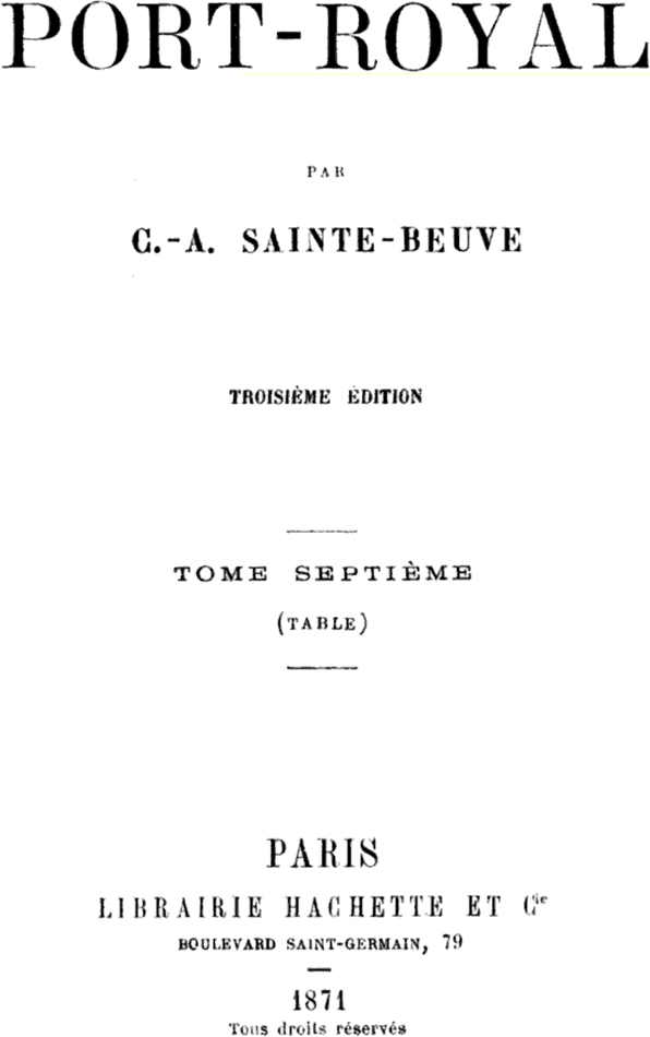 Title page from Port-Royal (1840-1859) by Charles Augustin Sainte-Beuve (1804-1869)